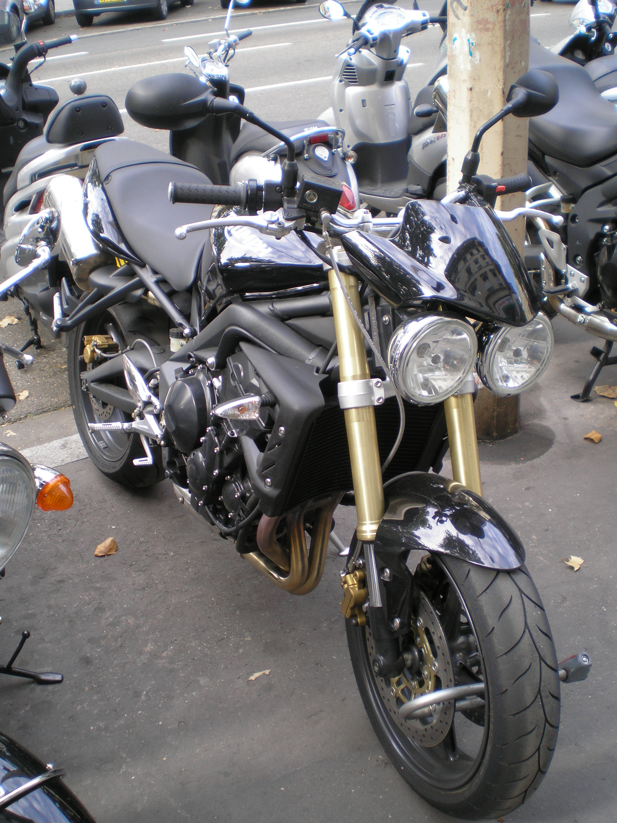 Triumph 675 Street Triple 2007 Jet Black